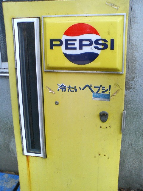 Pepsi in Japan